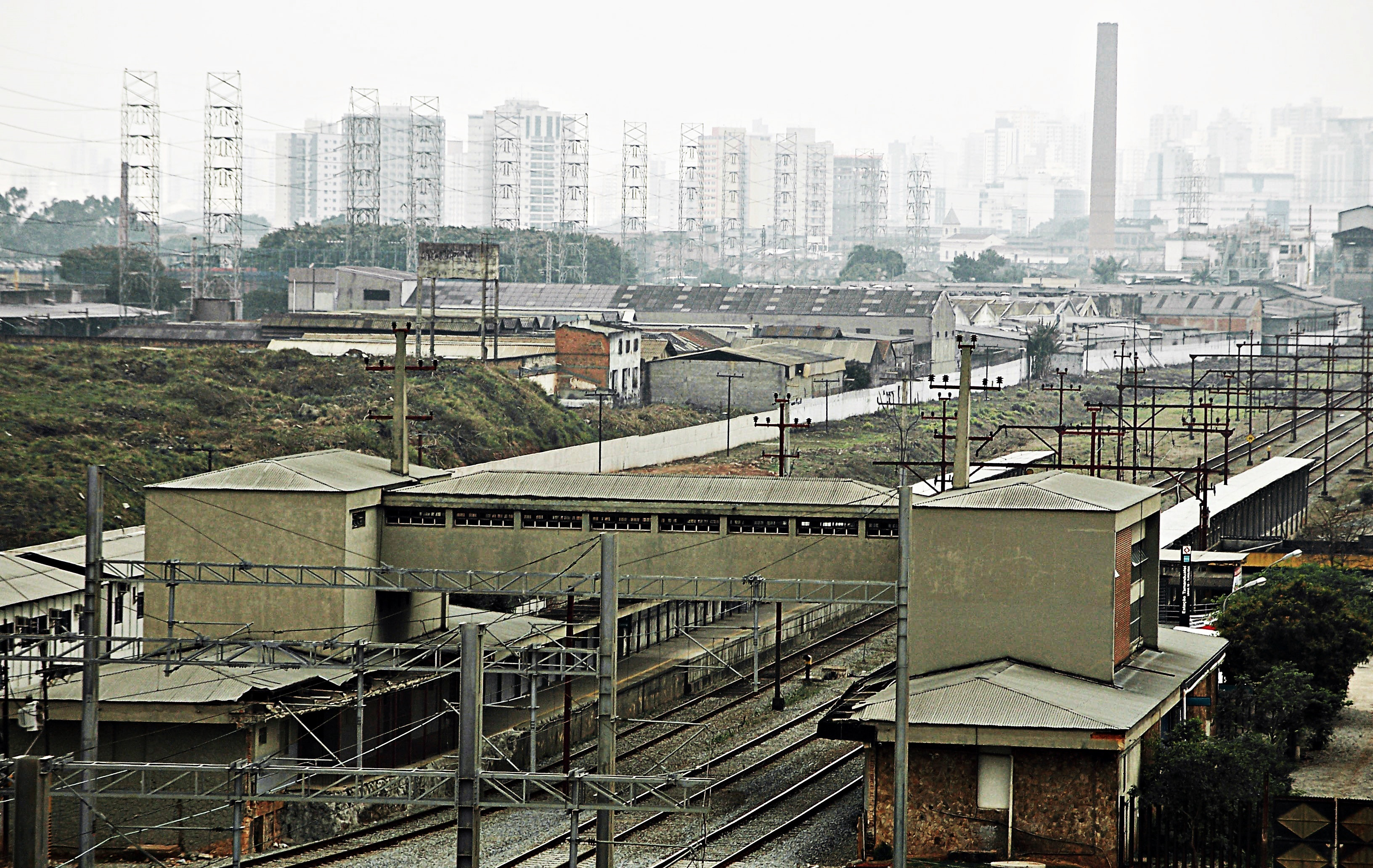 Old Tamanduateí station in São Paulo, Brazil, viewed from the new station.